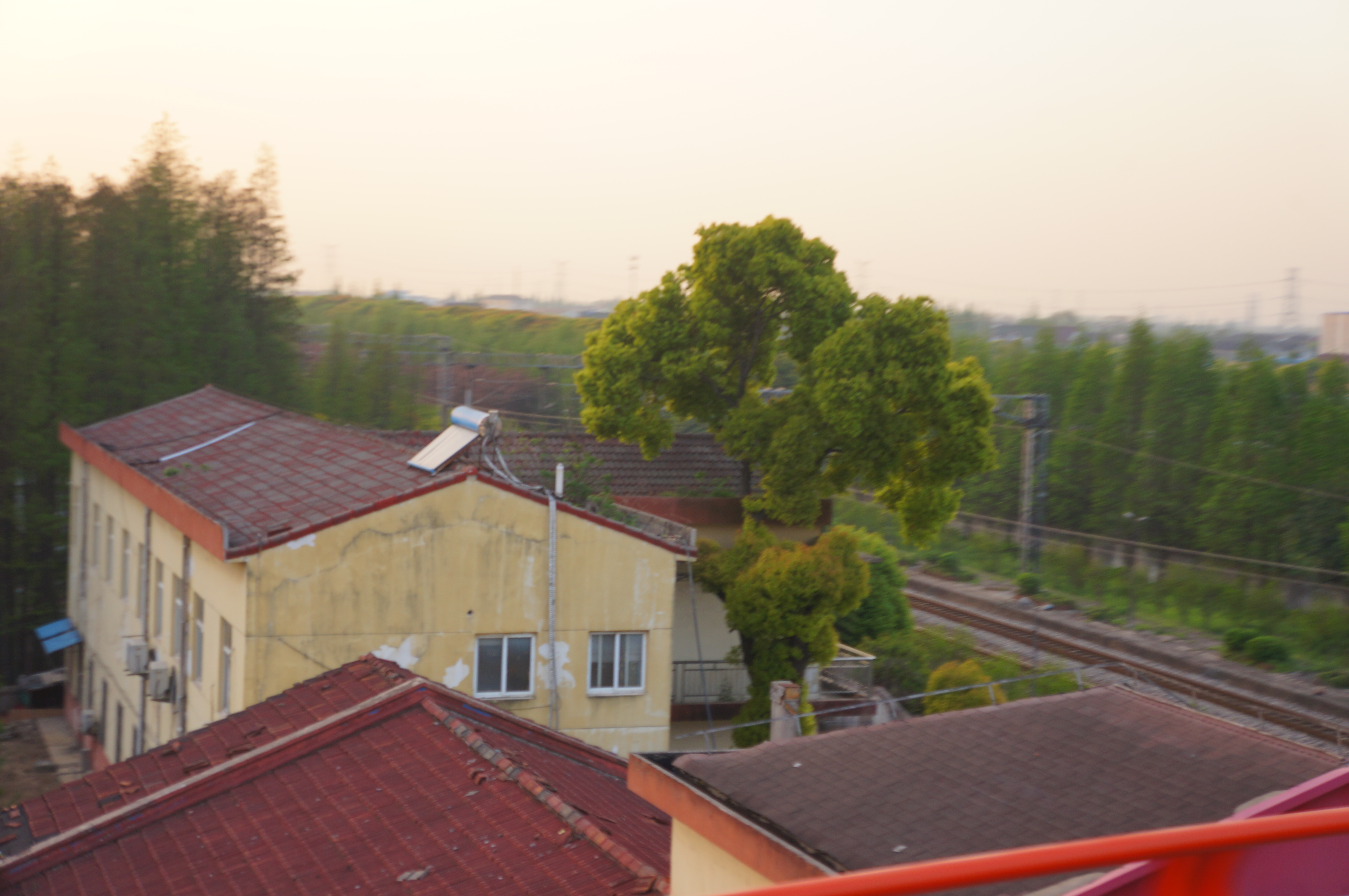 201704 Abolished building of Luoshe Station